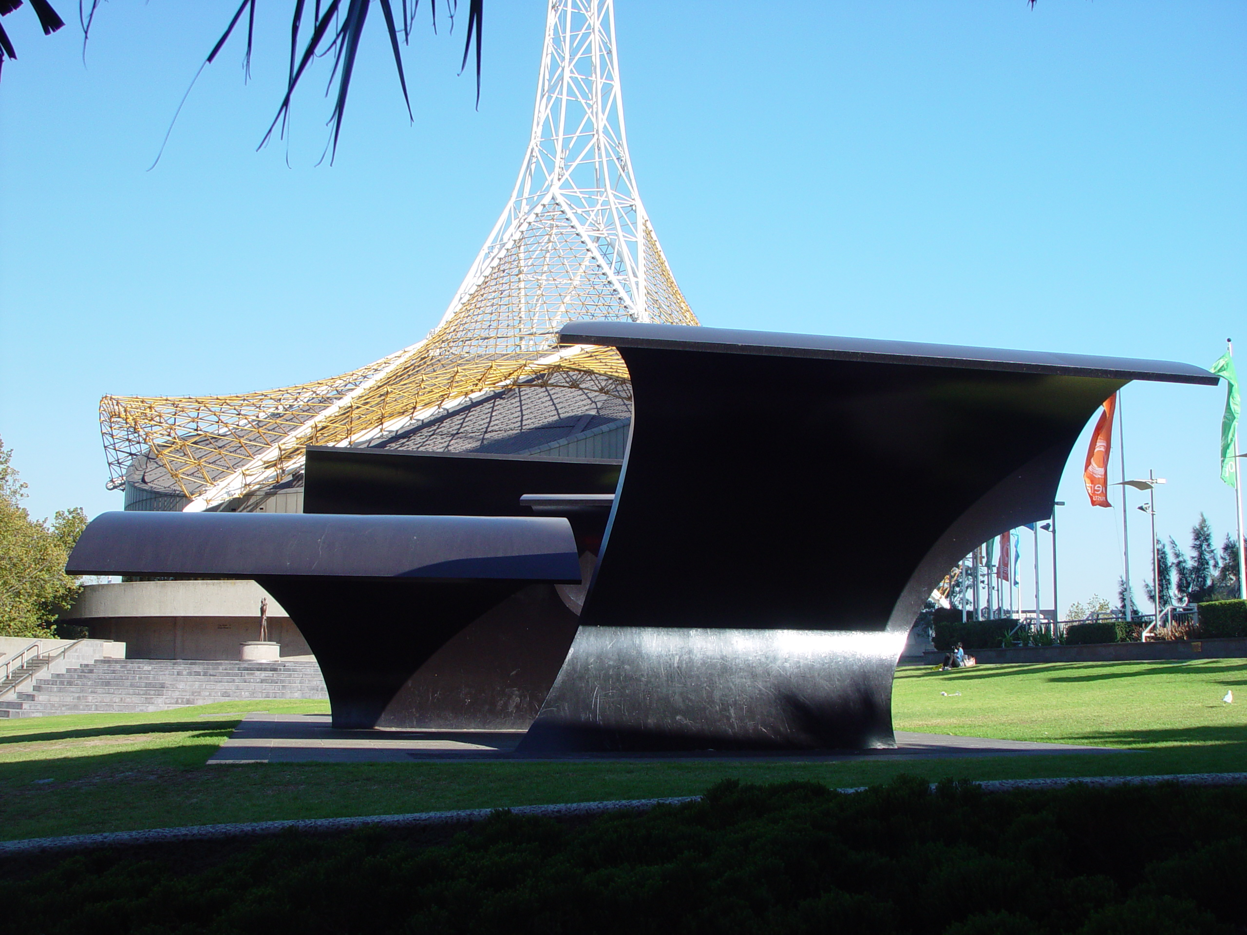 Inge King's steel sculpture "Forward Surge" is located at the Melbourne Arts Centre, St Kilda Rd, Melbourne, Australia. Licencing